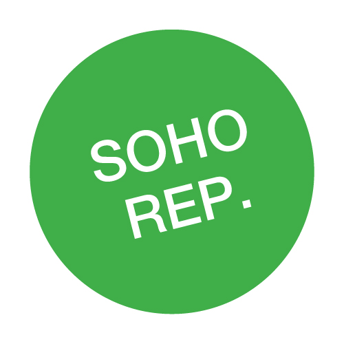 Soho Rep. Dog Logo